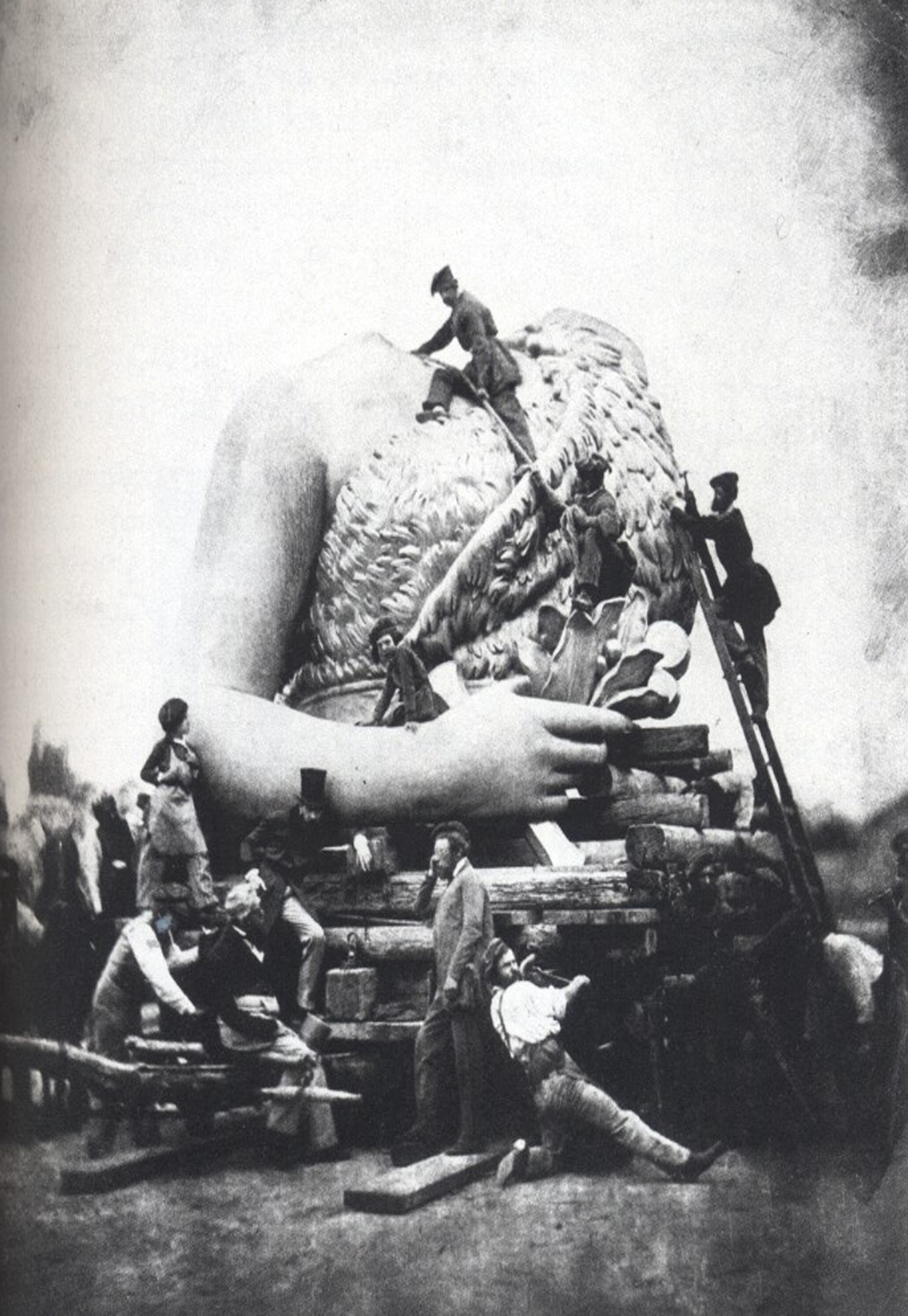 The Bavaria in creation, a statue in the german town Munich.